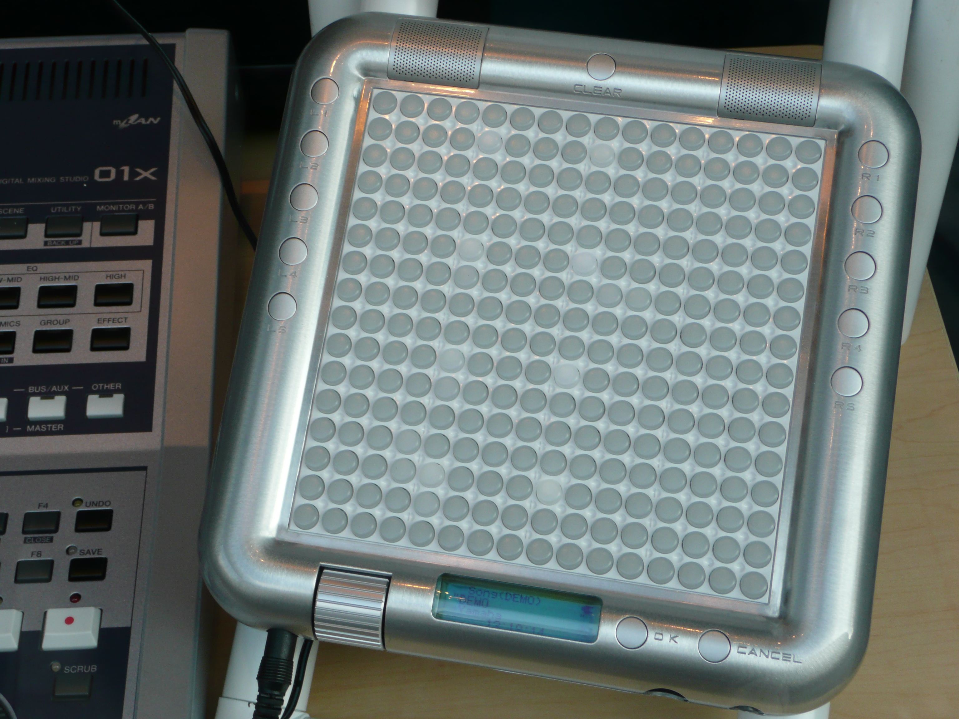 This picture of a Tenori-On, designed and created by Japanese artist Toshio Iwai and Yu Nishibori of the Music and Human Interface Group, Yamaha Center for Advanced Sound Technology, was taken in a music shop on Charing Cross Road in London, UK on the 2nd of January, 2008. This image is also posted and licensed at